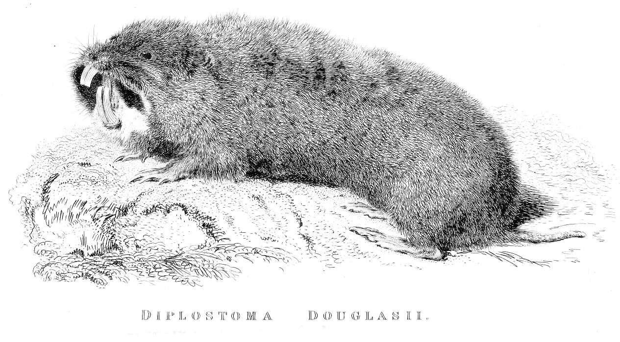 from Fauna boreali-americana, or, The zoology of the northern parts of British America Published 1829 by J. Murray in London .